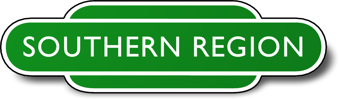 Self-made derivative of the railway station signage used by the British Transport Commission from nationalisation of the railways until the "British Rail" rebrand in the 1960s. Design based on the non-trademarked and not copyrightable station sign shape, with colours taken from standard reference works about the totems in use at the time.